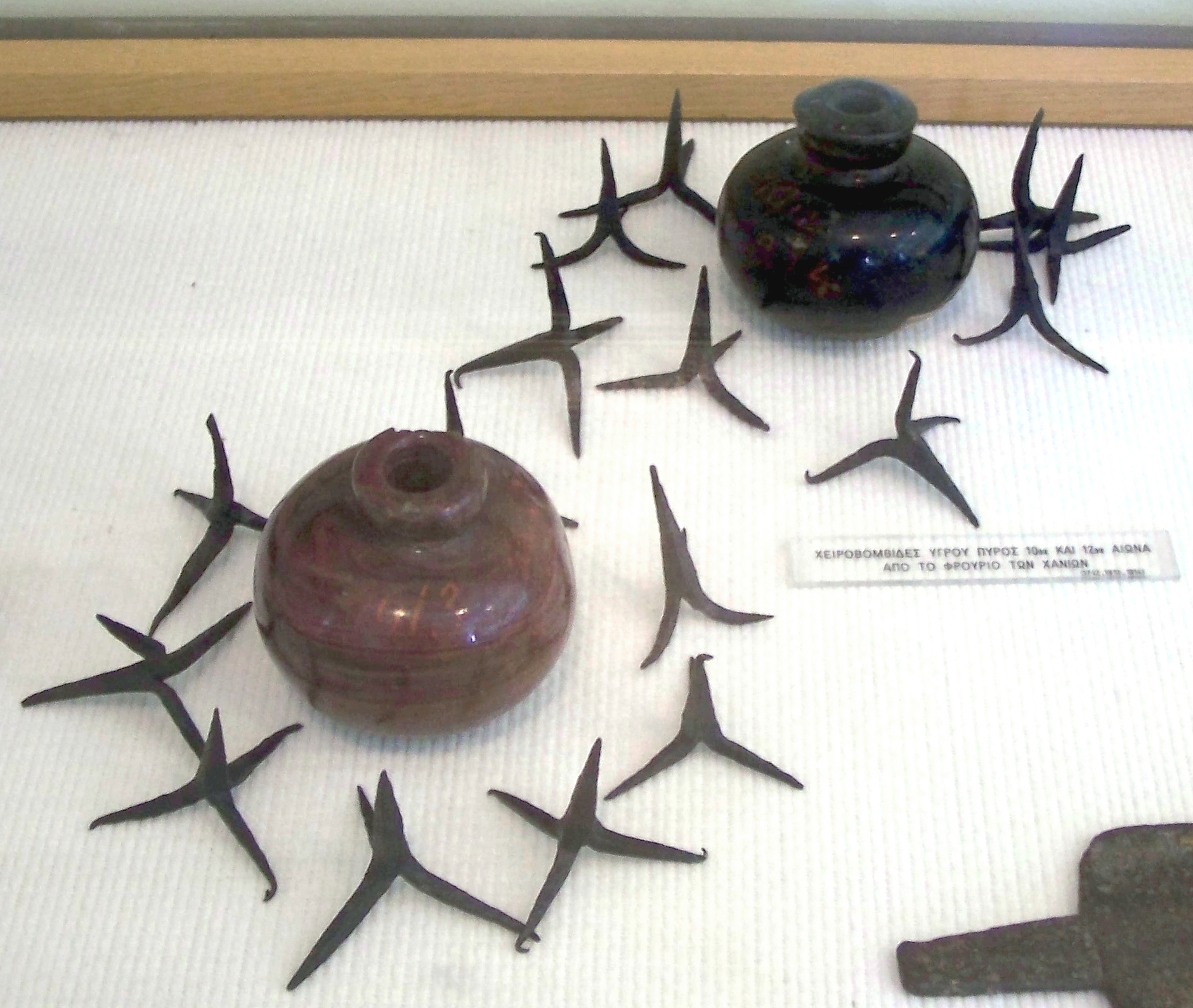 Grenades that were filled with liquid fire (Υγρό Πυρ) and caltrops from the fortress of Chania (Χανιά) 10th and 12th century. National Historical Museum, Athens, Greece.